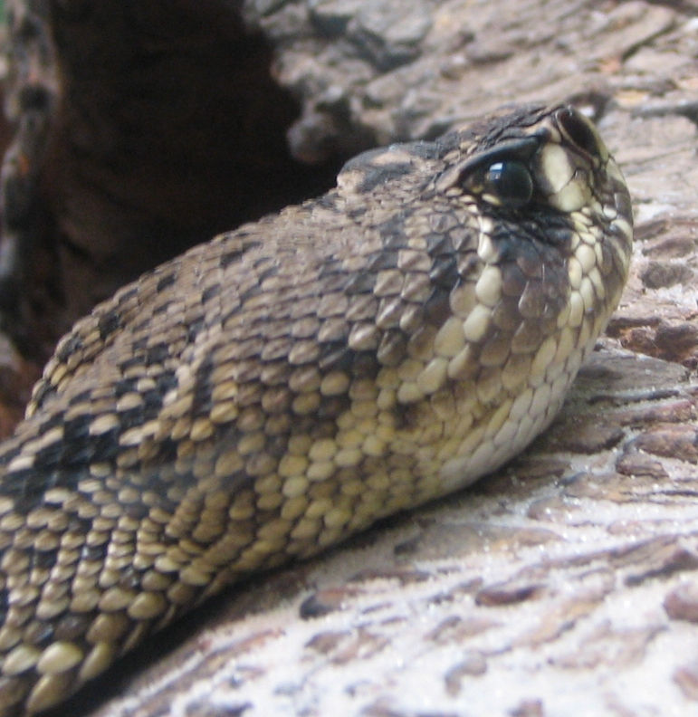 Eastern Diamondback Rattler (Crotalus adamanteus)